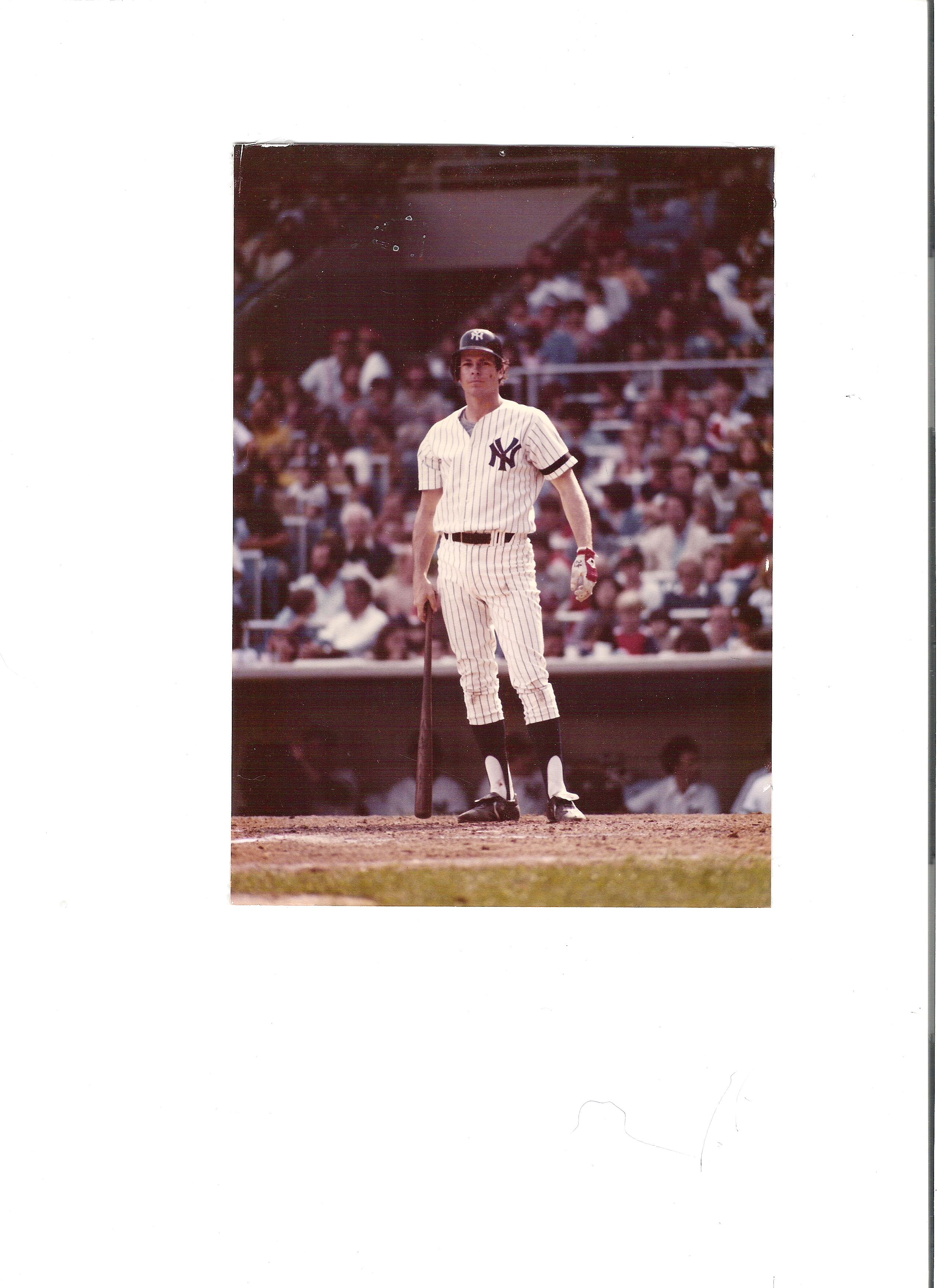 Bruce Robinson, New York Yankee catcher 1979, standing at home plate holding bat, looking to 3rd base coach for sign